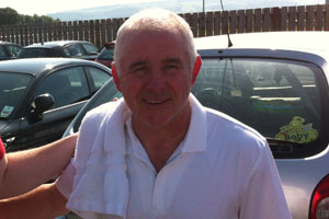 Photo taken by myself of Arthur Albiston following the Manchester United Legends Vs. Liverpool Legends game on July 6 2013 at Spiers and Hartwell Jubilee Stadium.